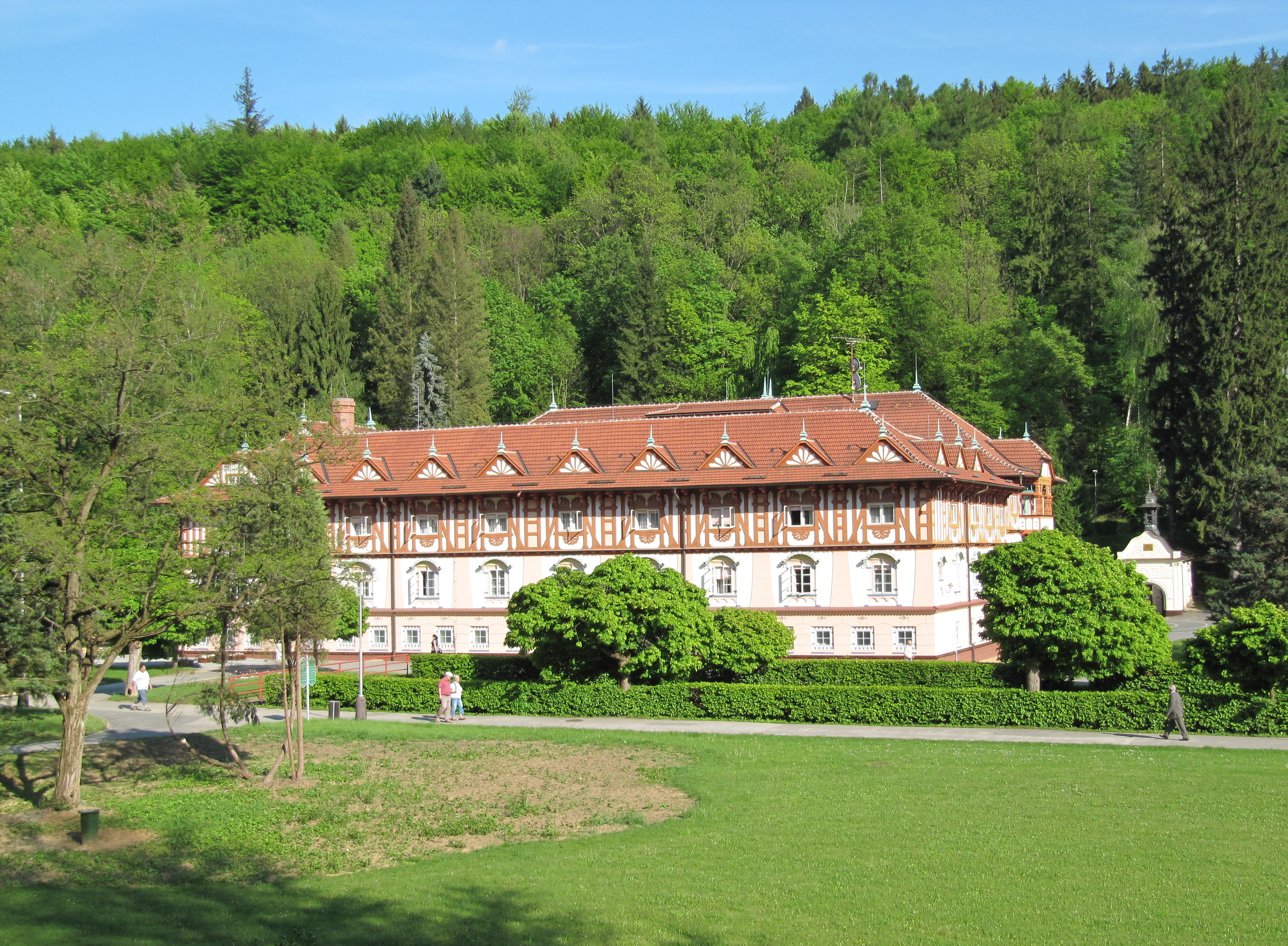 Luhačovice, Zlín District, Czech Republic.